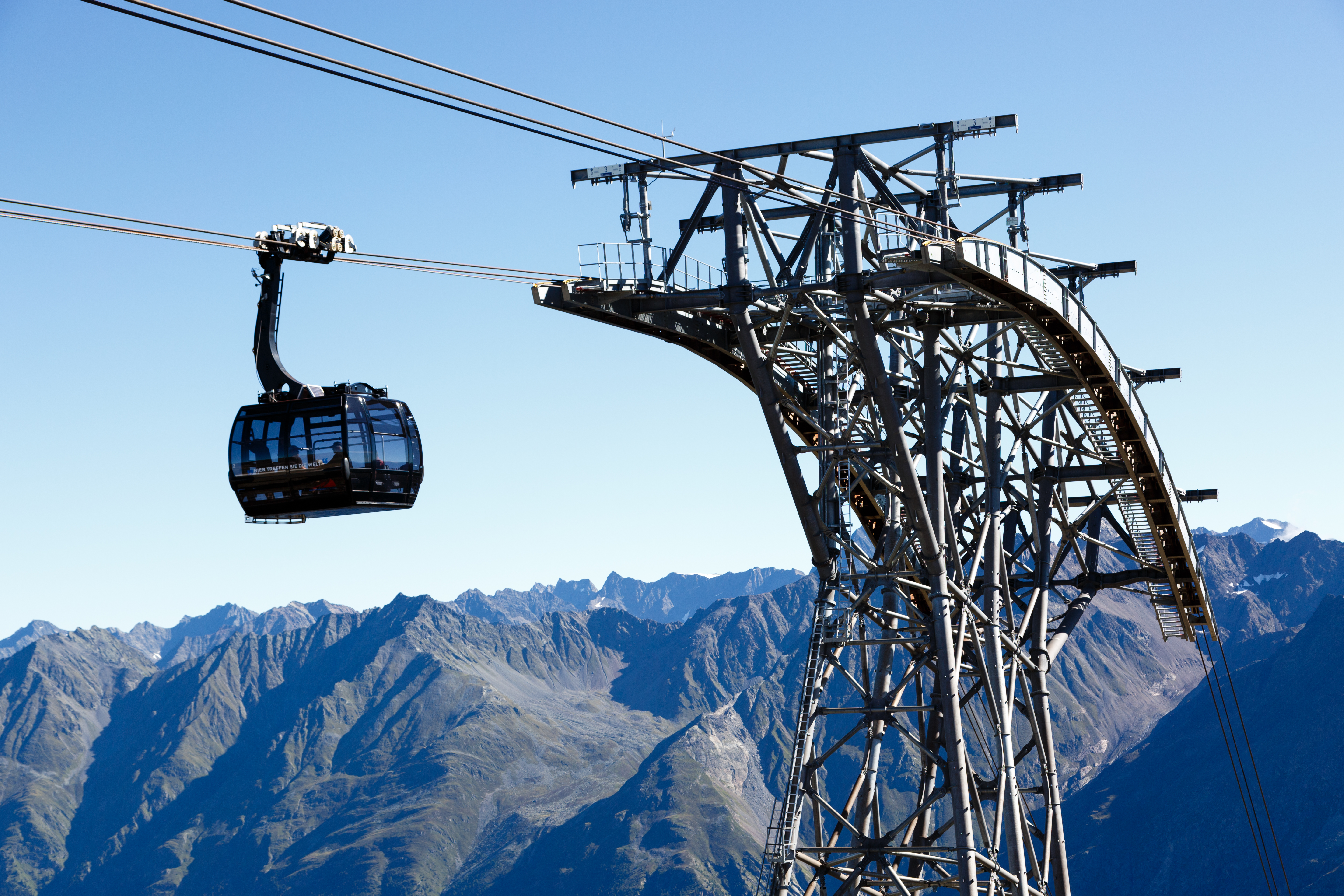 With the Gaislachkogelbahn to the Ice Q, Sölden, Tyrol, Austria